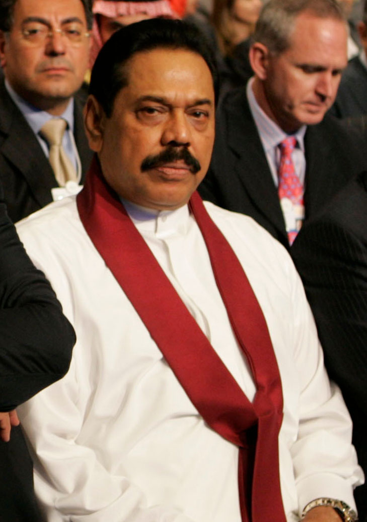 Photo of Mahinda Rajapaksa, president of Sri Lanka.